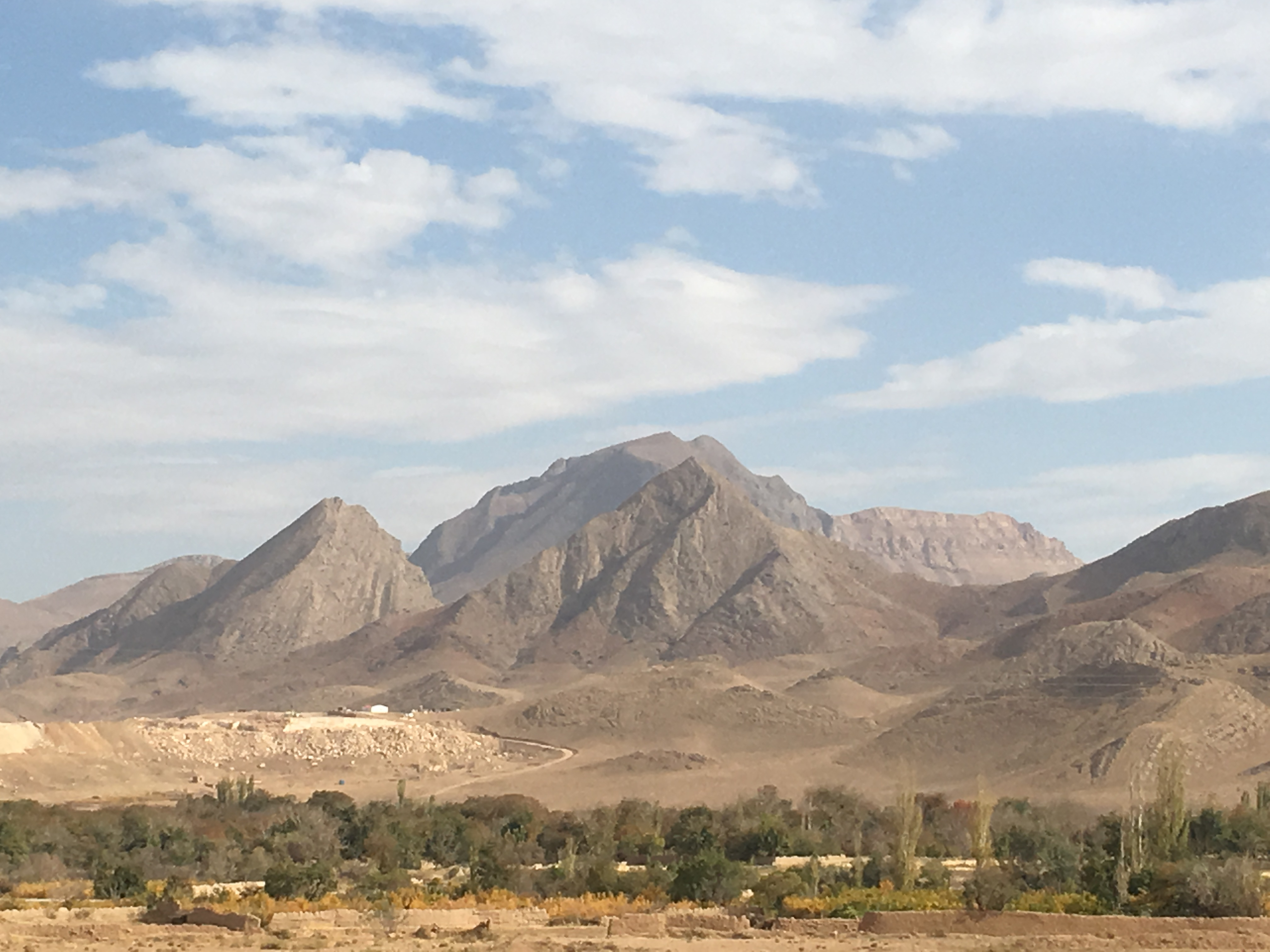 Khorheh agricultural fields, Khurzin Mountain and Kuh-e Siah at background